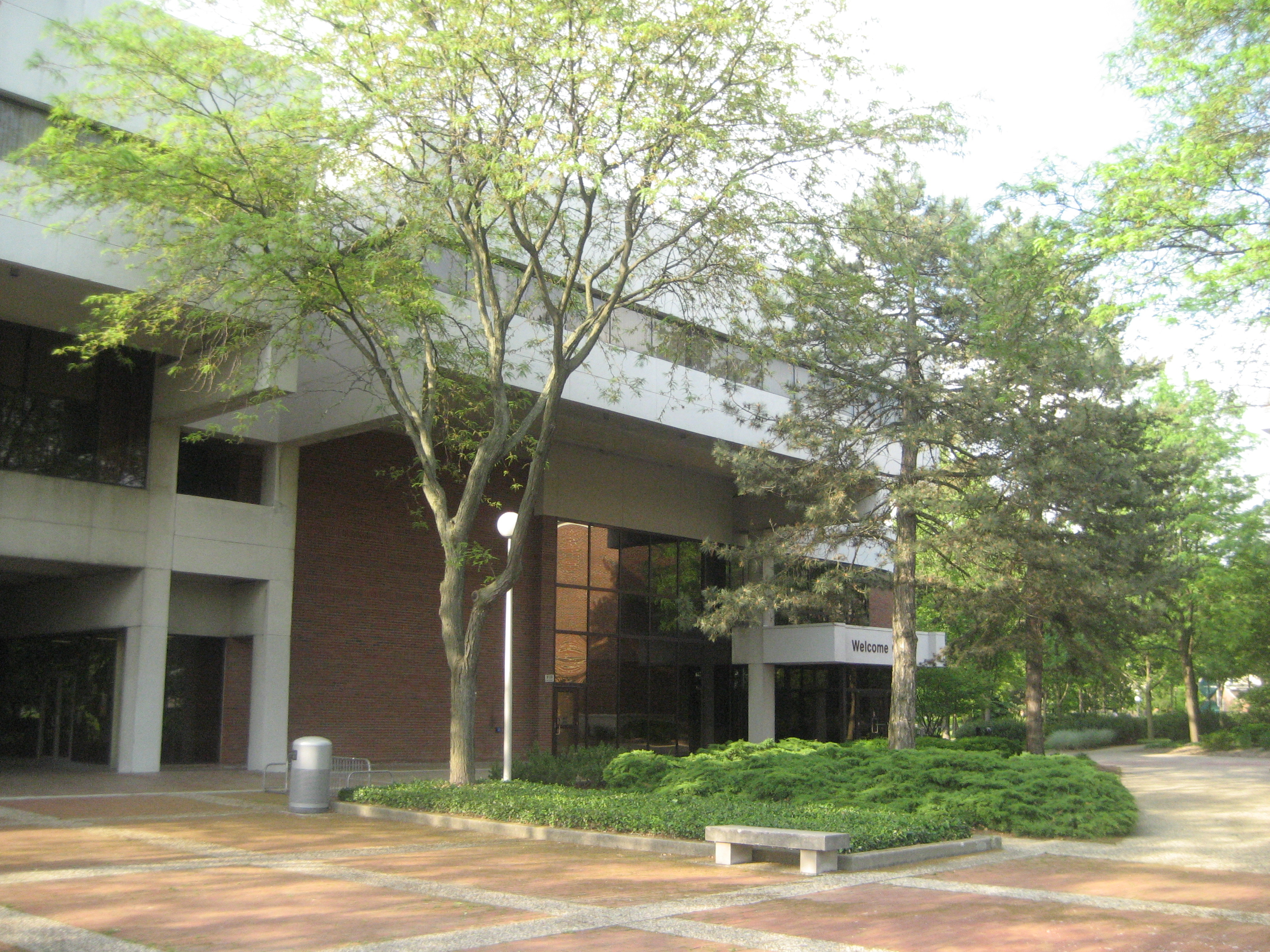 Decker Hall Anderso University (Anderson, IN)